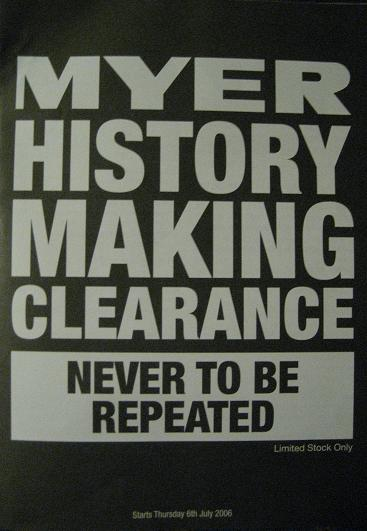 Photo of the Myer History Making Clearance Flyer distributed to customers.